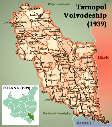 Map of Tarnopol Voivodeship (Polish: Województwo Tarnopolskie) before the onset of German and Soviet invasion of Poland in September 1939.